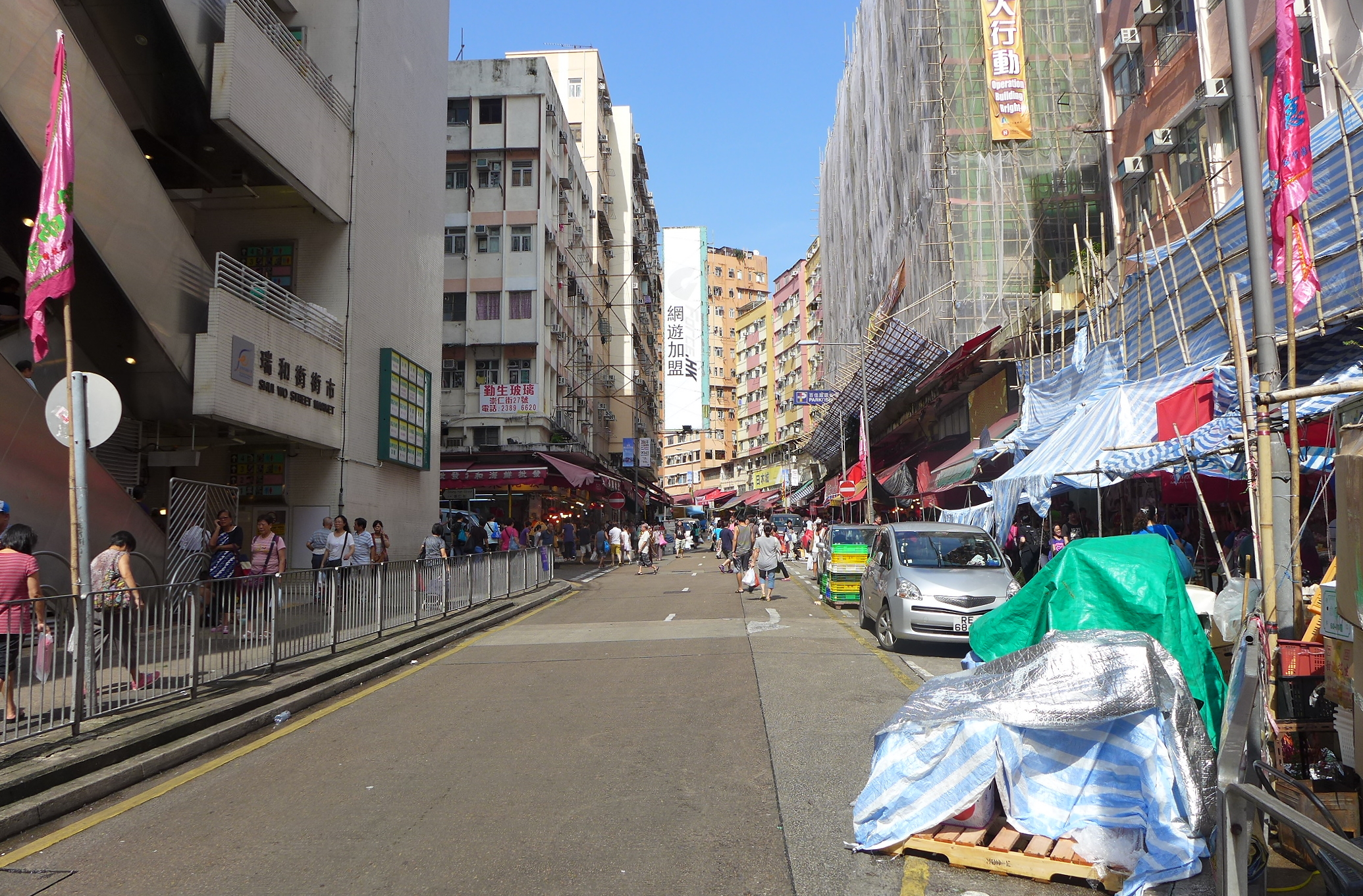 Shui Wo Street